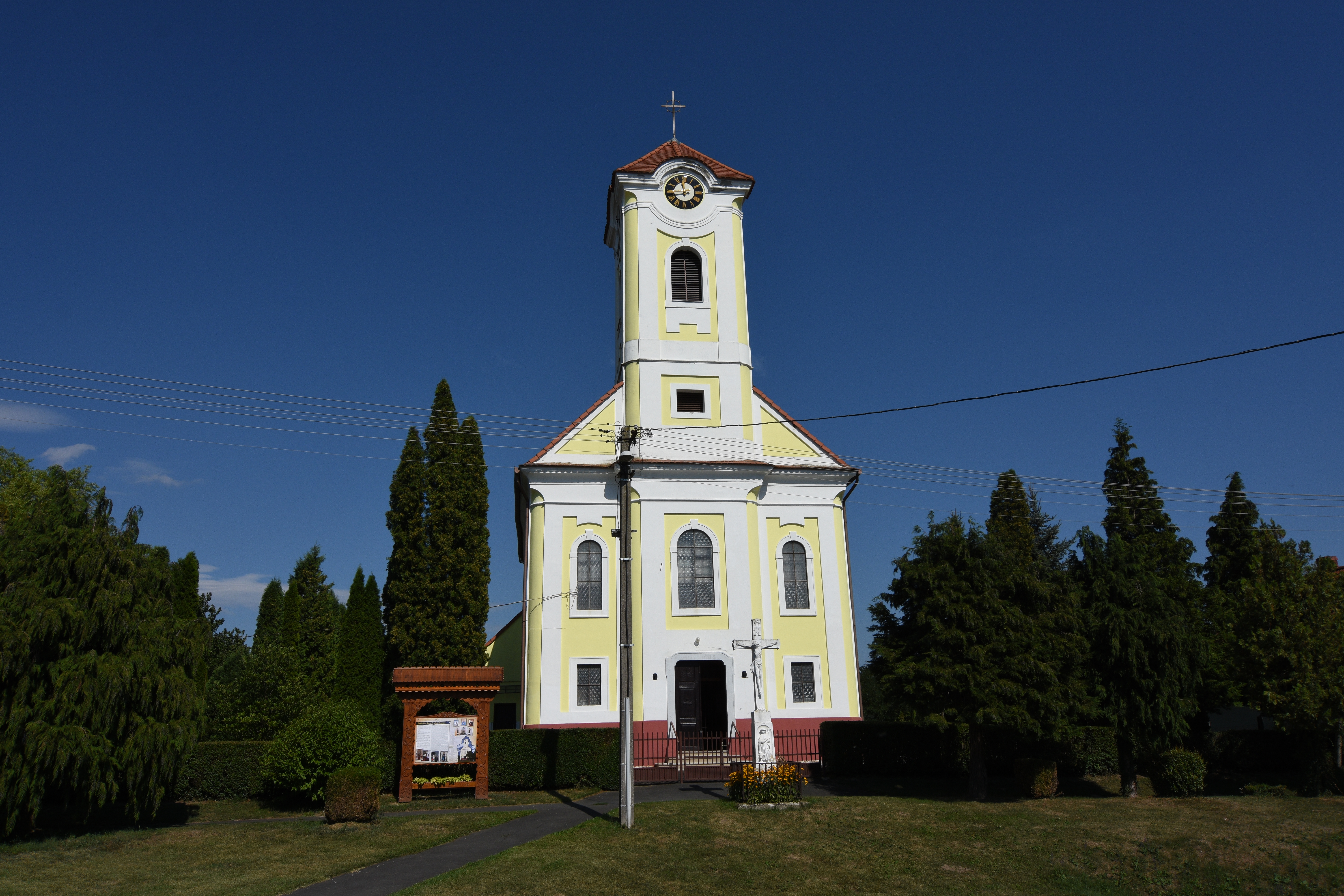 Roman Catholic Church in Győrvár